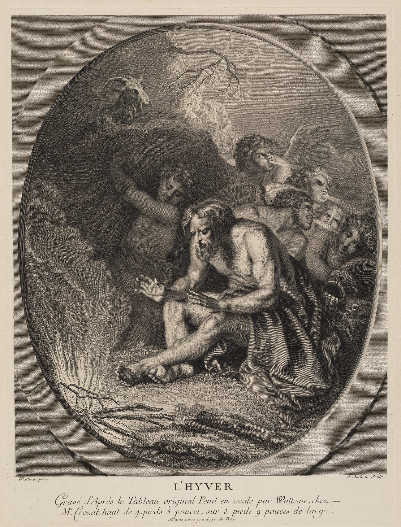 HARVARD ART MUSEUMS: People: Jean Audran, French (Lyon 1667 - 1756 Paris) After Jean-Antoine Watteau, French (Valenciennes 1684 - 1721 Nogent-sur-Marne) Title: Winter Other Titles: Original Language Title: L'Hyver Series/Book Title: Les Saisons Crozat Series/Book Title: Recueil Jullienne Classification: Prints Work Type: print Date: 18th century Culture: French Persistent Link: Physical Descriptions: Technique: Engraving and etching Dimensions sheet: 62.5 × 47 cm (24 5/8 × 18 1/2 in.) plate: 44.9 × 33.5 cm (17 11/16 × 13 3/16 in.) Inscriptions and Marks inscription: in plate, lower margin, centered: L'HYVER / Gravé d'Aprés le Tableau original Peint en ovale par Watteau, chez / Mr. Crozat, haut de 4. pieds 5. pouces, sur 3. pieds 9. pouces de large. / AParis avec privilege du Roi inscription: in plate, lower margin, left: Watteau pinx. inscription: in plate, lower margin, right: J. Audran Sculp. Object Number: 2017.120.9